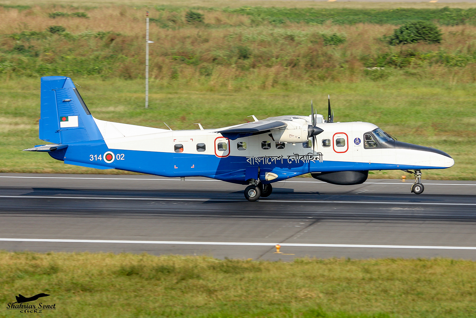 Dornier Do-228 MPA of Bangladesh Navy landing after VDFP over National Parade Ground.